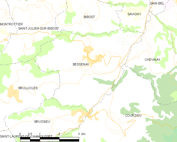 Map of French municipality